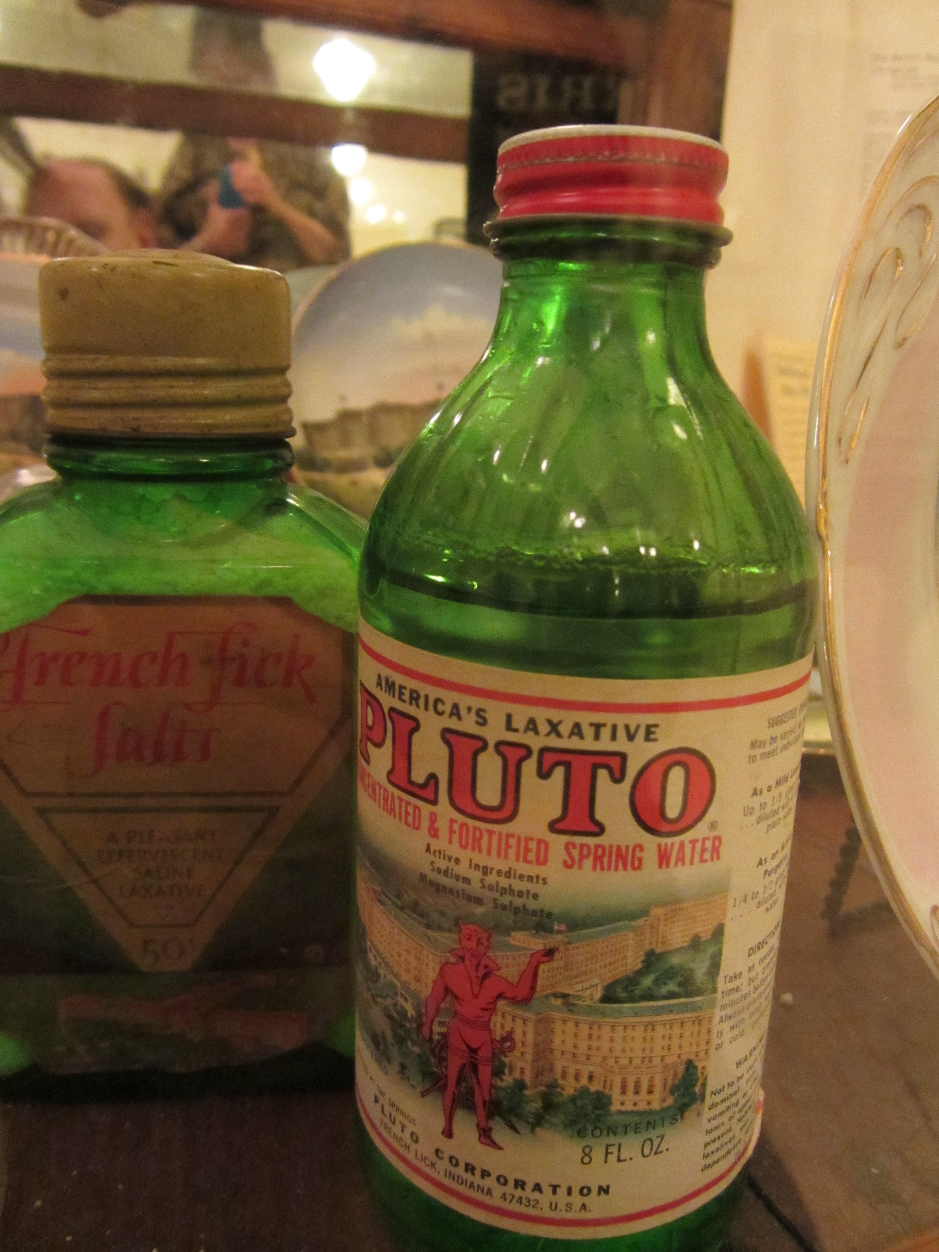 Antique bottle of "Pluto Water" from French Lick Springs. From a display of memorabilia and antiques at the West Baden Springs hotel, French Lick Indiana.